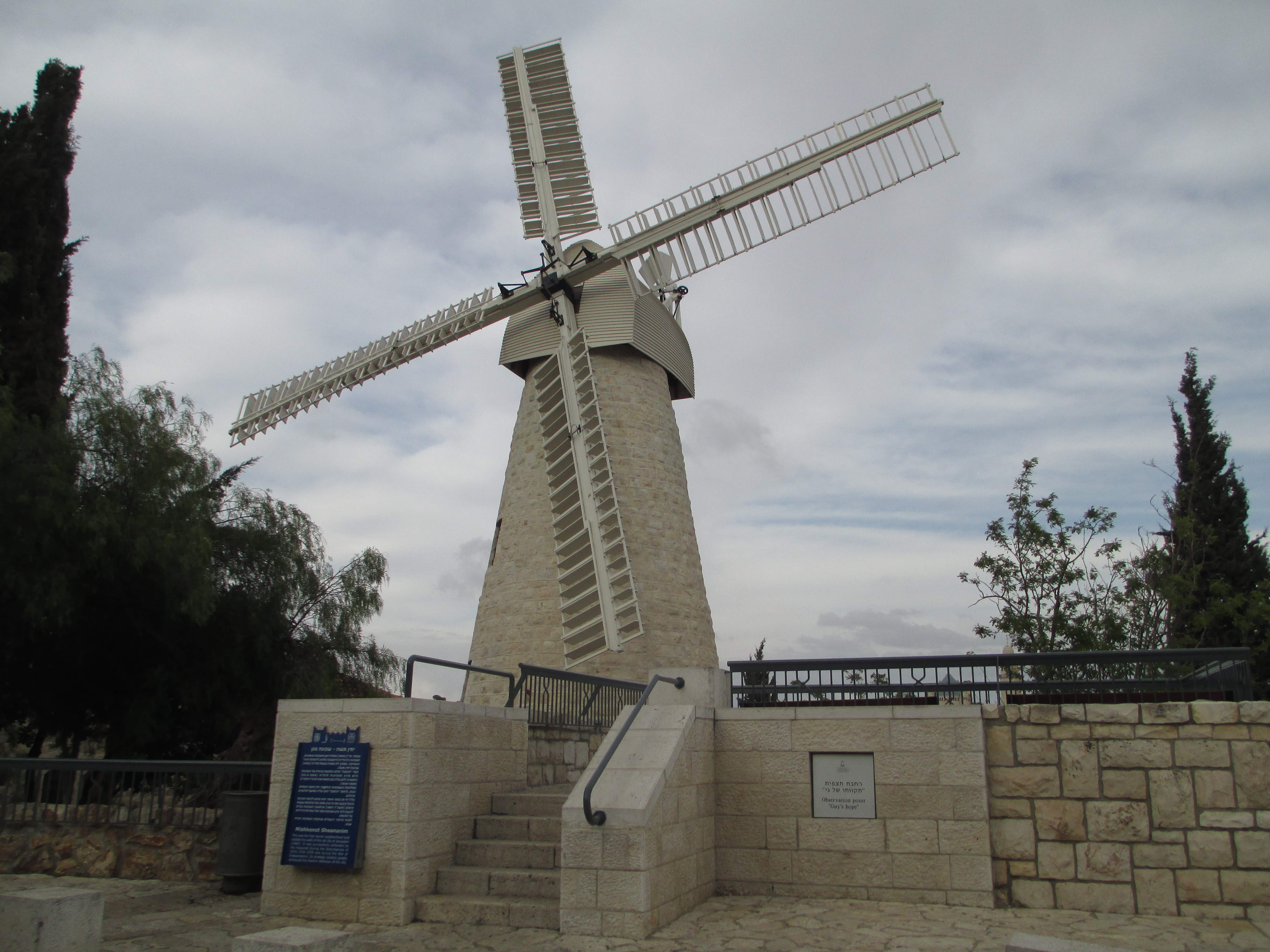 Renovated Windmill in Yemin Moshe, Jerusalem